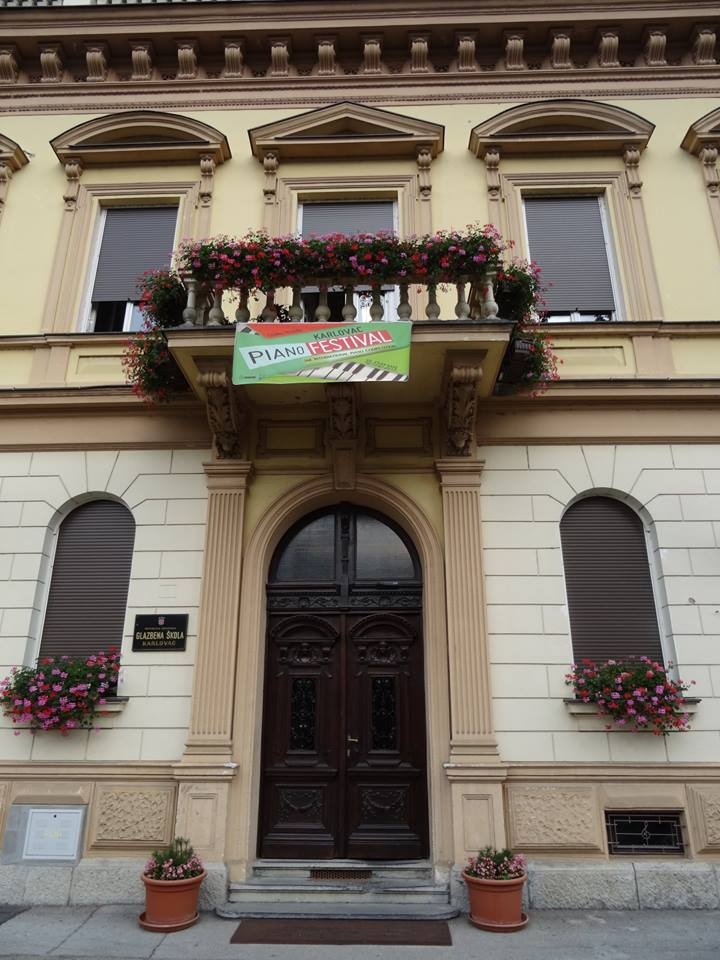 The photo displays the entrance to the Karlovac Music School, Karlovac, Croatia. The photo was taken in July 2015, during the Karlovac Piano Festival.